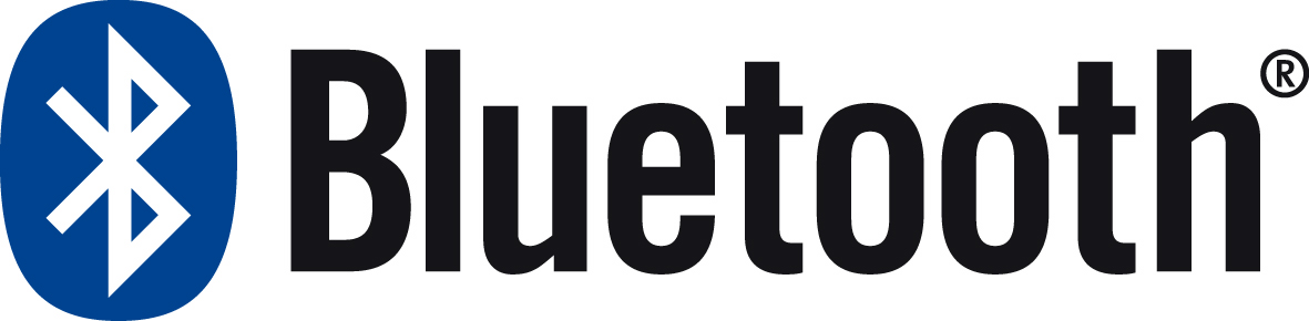 Bluetooth combo wordmark 2011